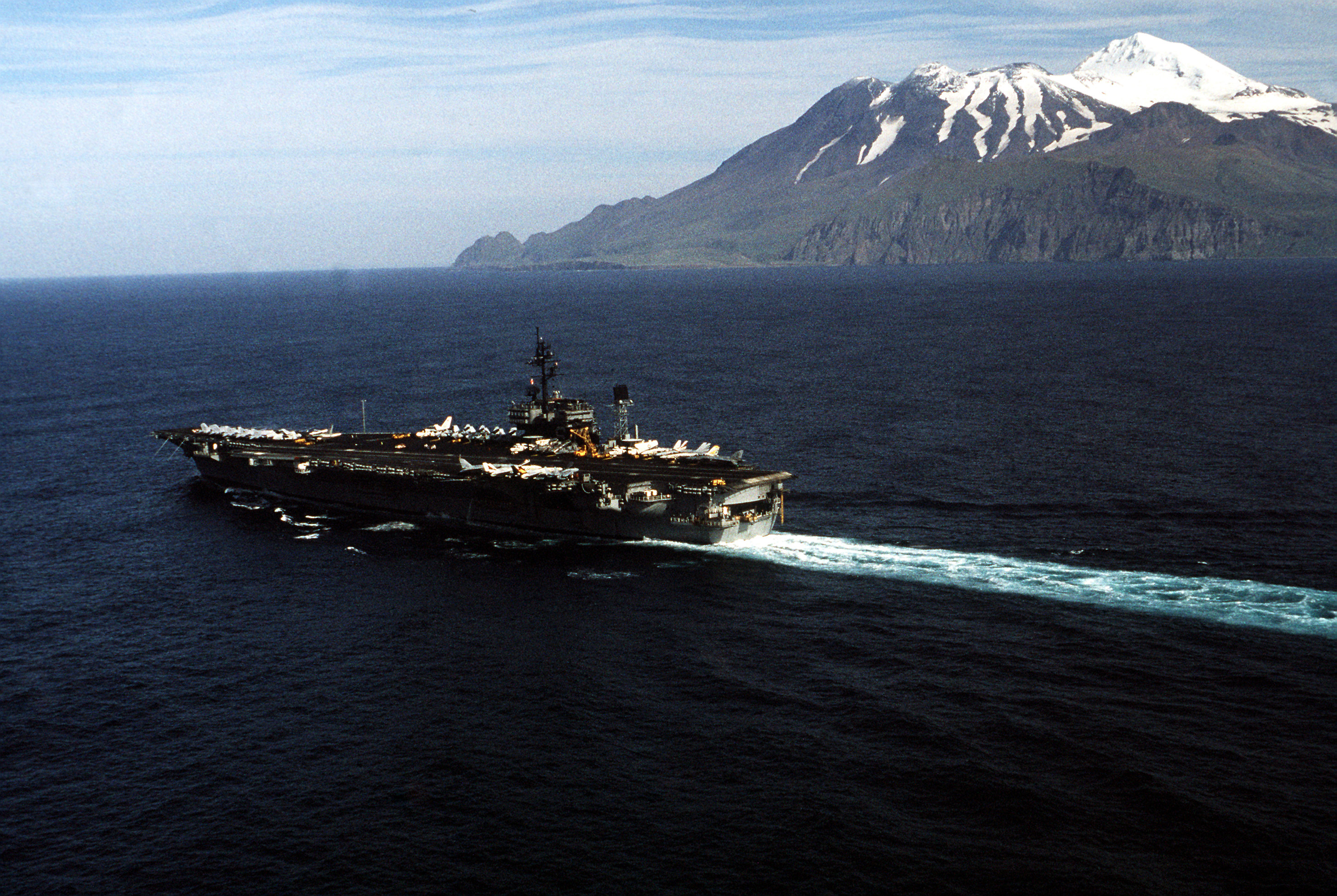 A port view of the aircraft carrier USS CONSTELLATION (CV 64) underway during PACEX '89. (near the Aleutian Islands)